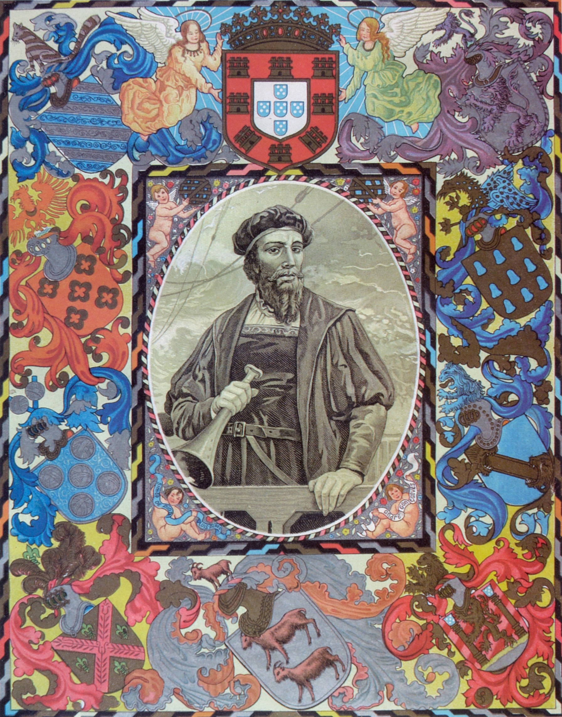 A miniature representing Pedro Álvares Cabral (the navigator who discovered Brazil) from the Livro das Armadas